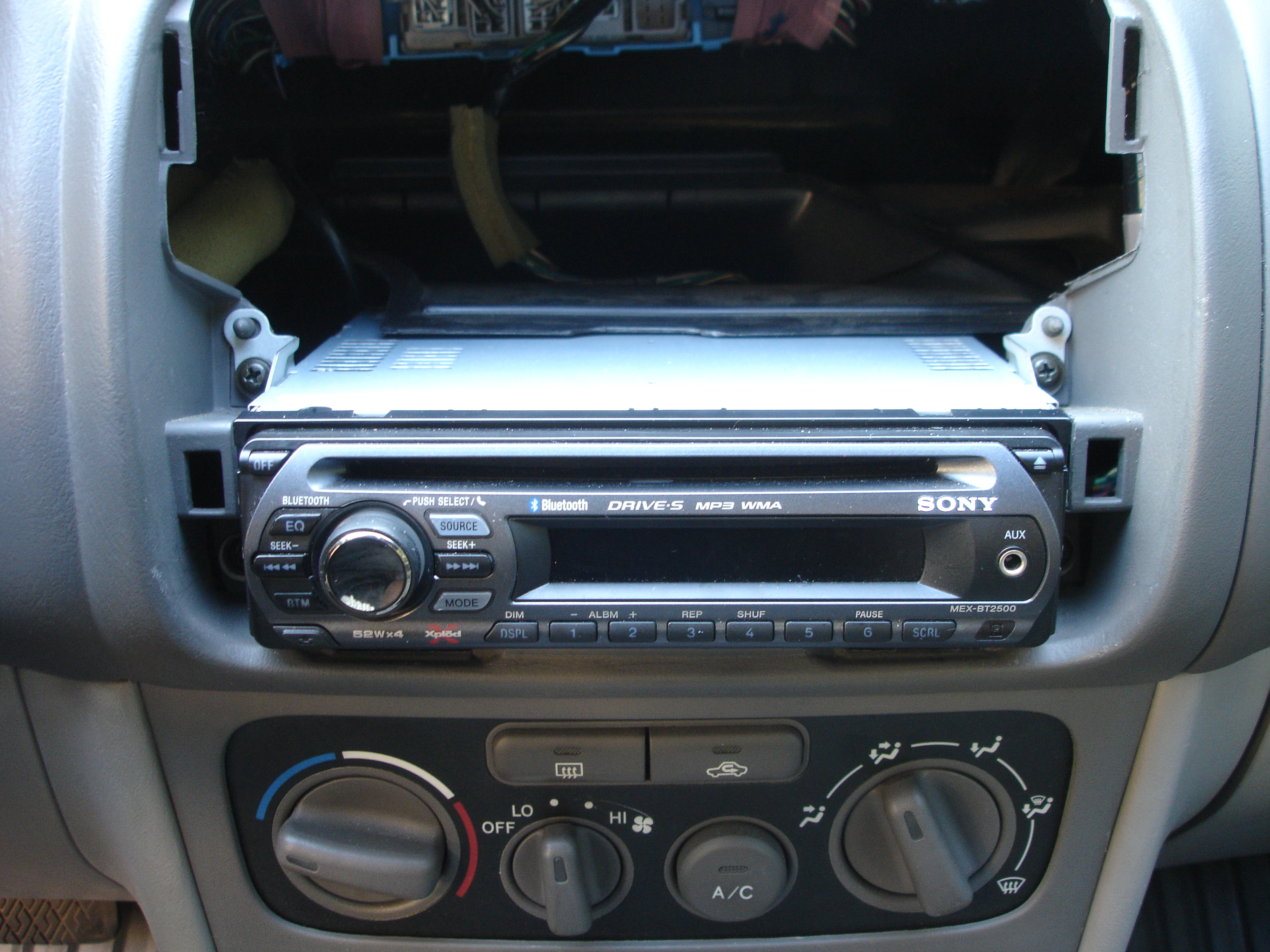 Sony Xplod MEX-BT2500 Bluetooth stereo head unit installed into a vehicle single DIN according to ISO 7736 rack and screw mount technique. 1998-2002 Toyota Corolla E110/Geo/Chevrolet Prizm dash.